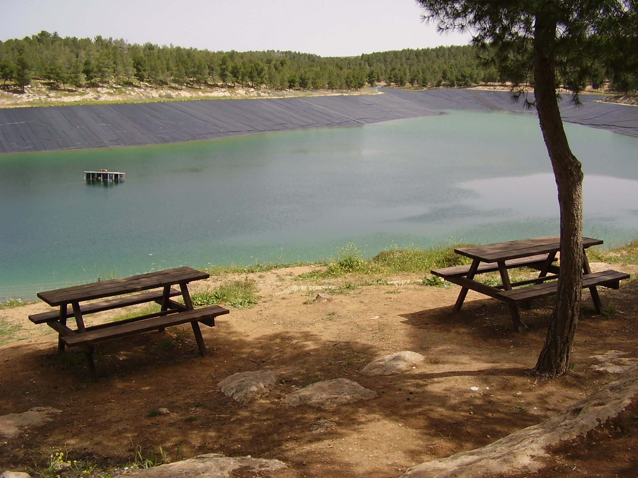 water reservoire in yatir forest